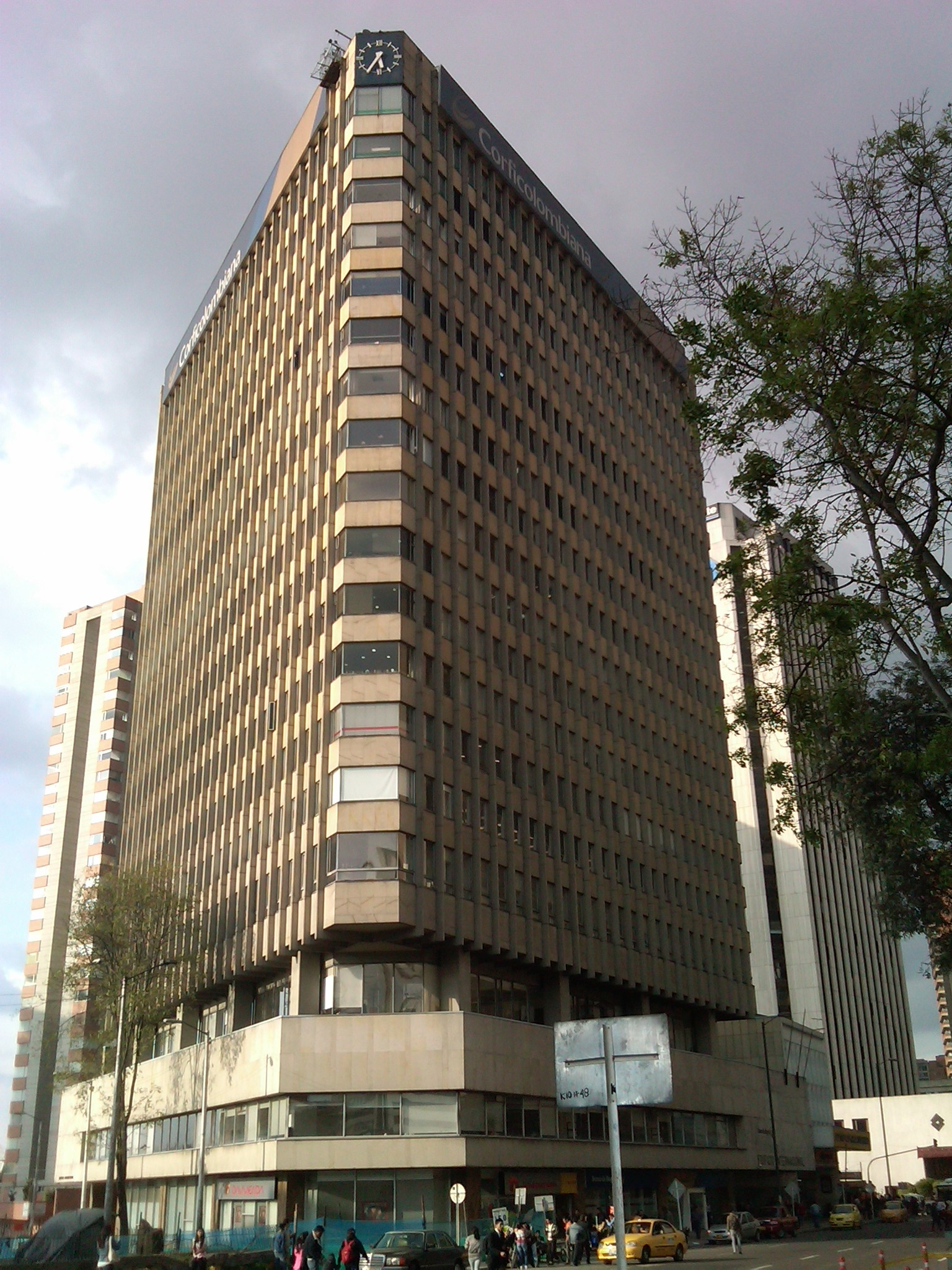 The Corficolombiana building in the Centro Internacional neighborhood of Bogotá,Colombia